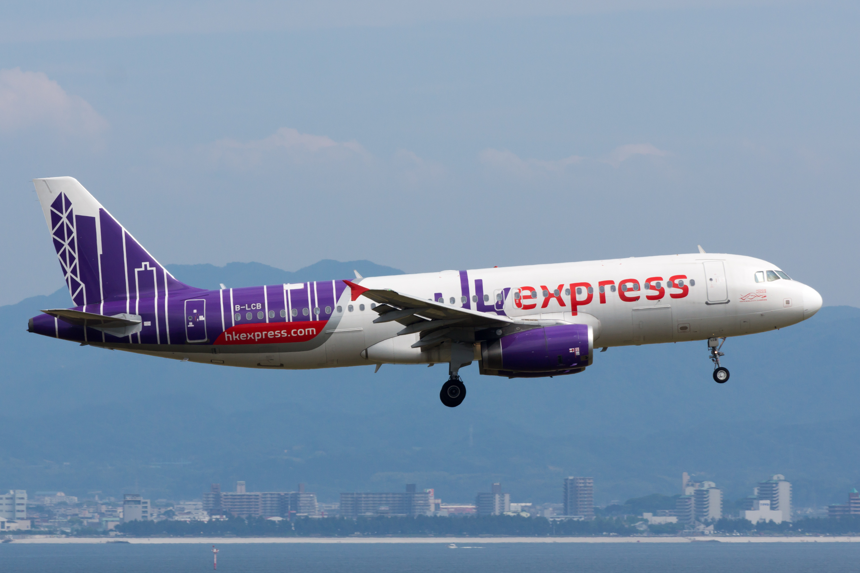 HK Express/ 香港快運航空/ 香港エクスプレス航空 Airbus A320-232 B-LCB UO686, Arrived from Hong Kong Osaka Kansai Int'l Airport